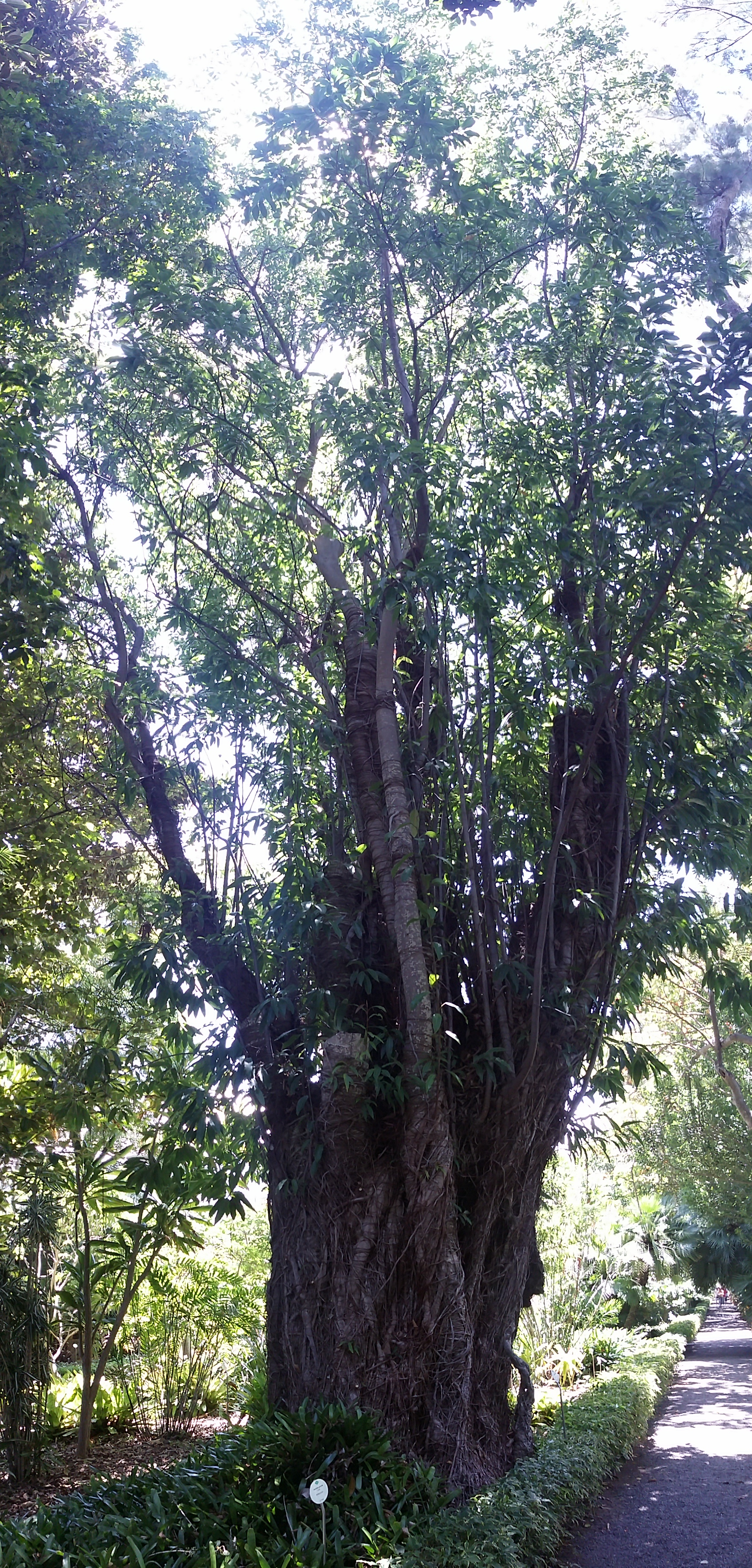 Coussapoa microcarpa in the Jardin Botanico Puerto de la Cruz in Tenerife